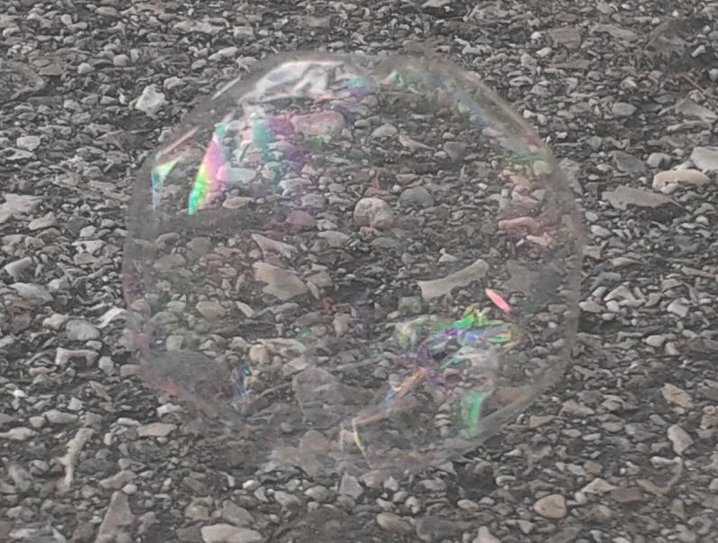 Frozen soap bubble on asphalt at -17°C / +1°F